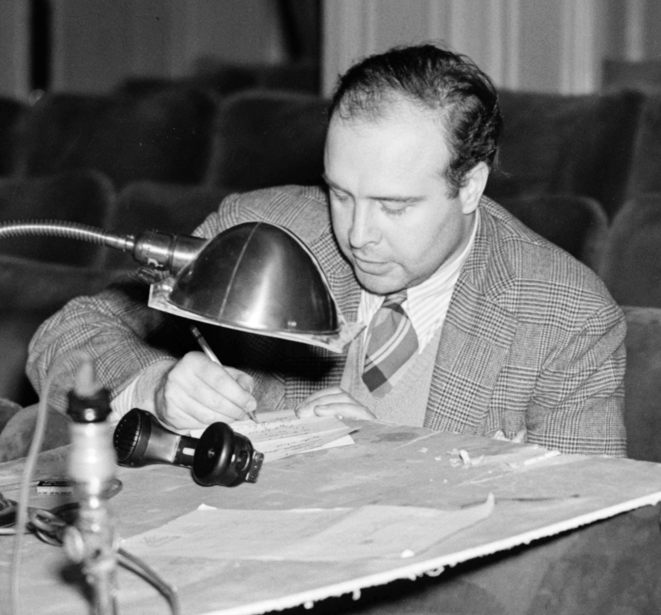 Photograph of John Houseman in the Maxine Elliott Theatre during preparations for the Federal Theatre Project 891 production of Doctor Faustus, which opened January 8, 1937